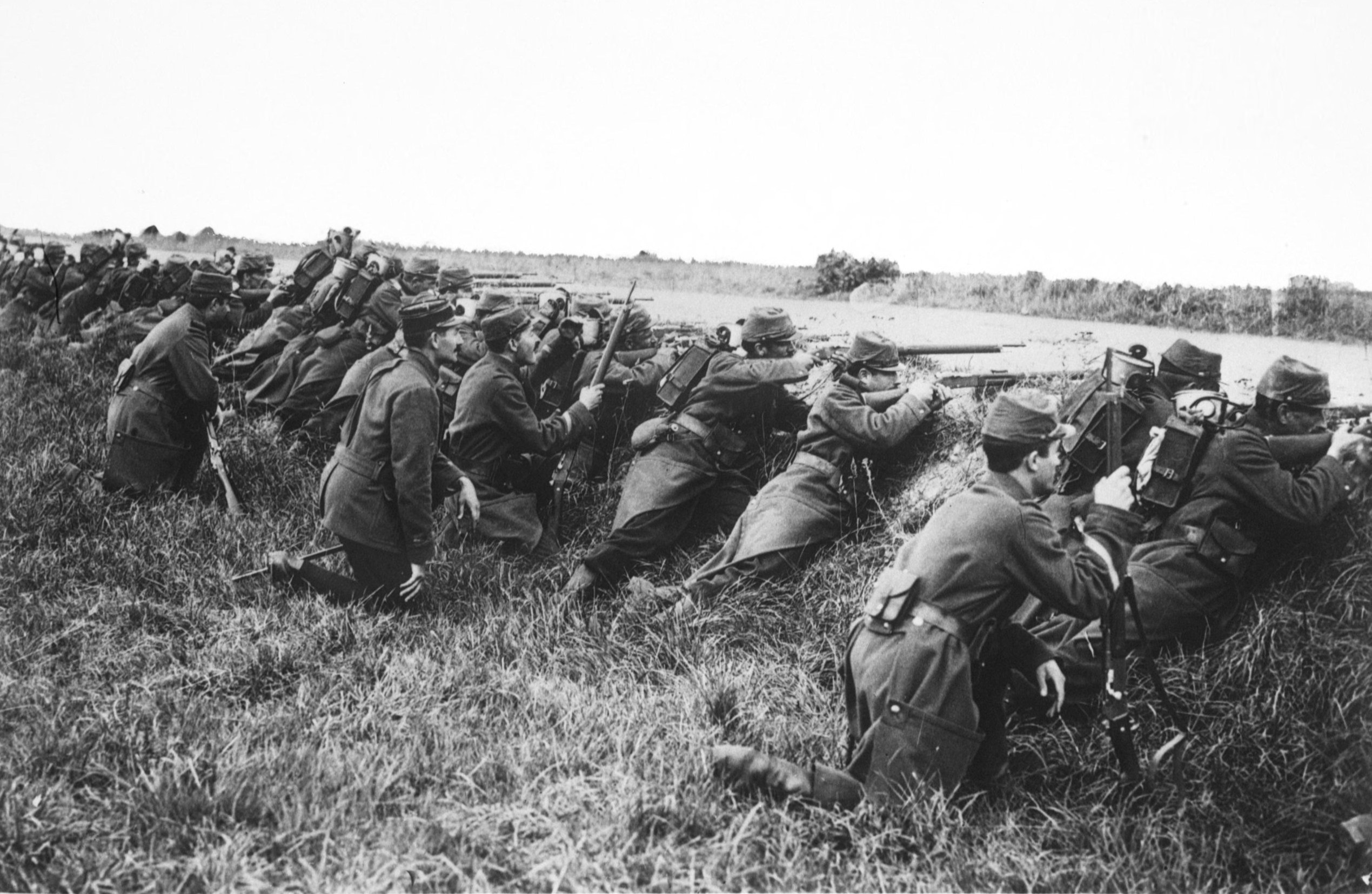 French soldiers waiting assault behind a ditch